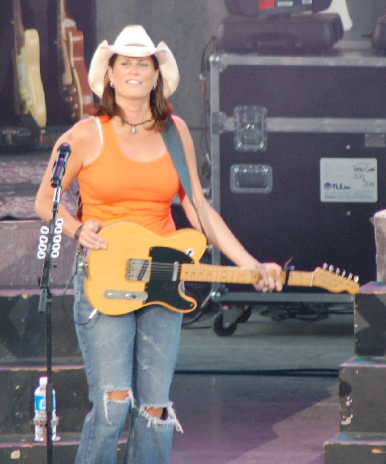 Terri Clark performing at the Western Idaho Fair in Boise, Idaho in en:2006